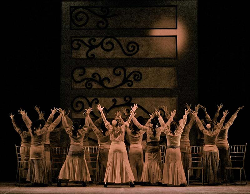 The cursed women dance to the blood moon